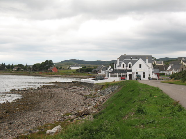 The Aultbea Hotel on the shores of Loch Ewe